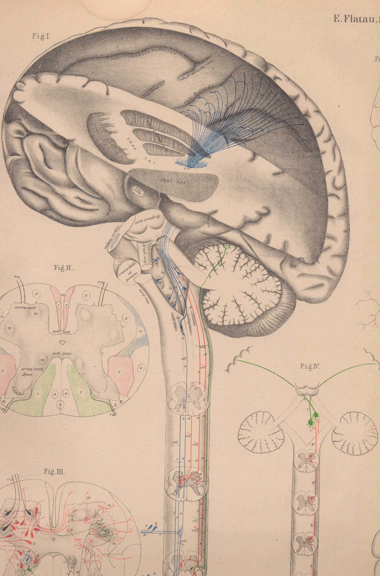 Plate from Edward Flatau brain atlas 1899 (2nd edition, Springer)